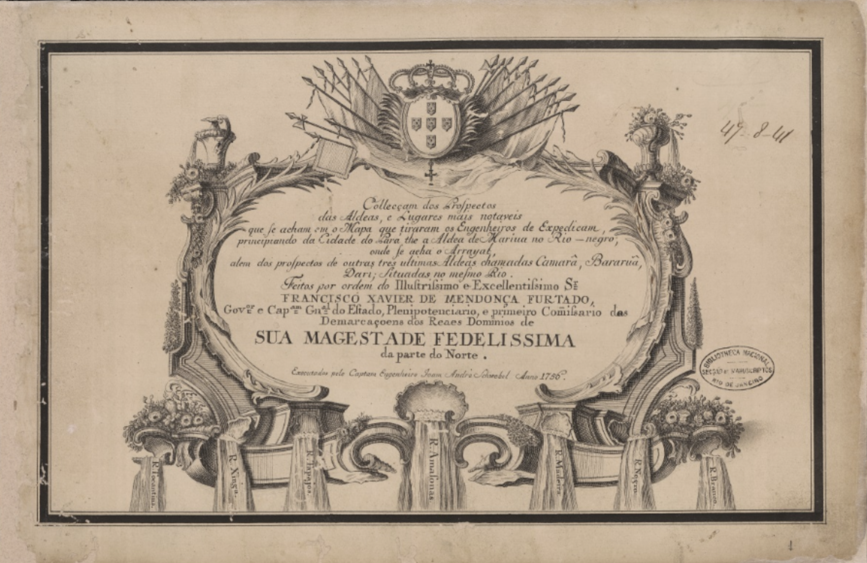 Title Page. Collection from the prospects of the villages, and more remarkable places that are found on the map that the engineers created on expedition starting from the city of Pará to the village of Mariua in the Rio Negro, 1756. Drawing in Indian ink by João André (Johann Andreas) Schwebel. He was a German military engineer and was hired by the Portuguese Crown to be part of the Commission of border demarcations in the northern region of Brazil according to the Treaty of Madrid (1750). The Portuguese commission stayed for five years conducting surveying and hydrographic services in this region. This view, together with the others in this group, constitute an iconographic collection of the region between Belém and Barcelos during the colonial period. Collection of the Biblioteca Nacional do Brasil.